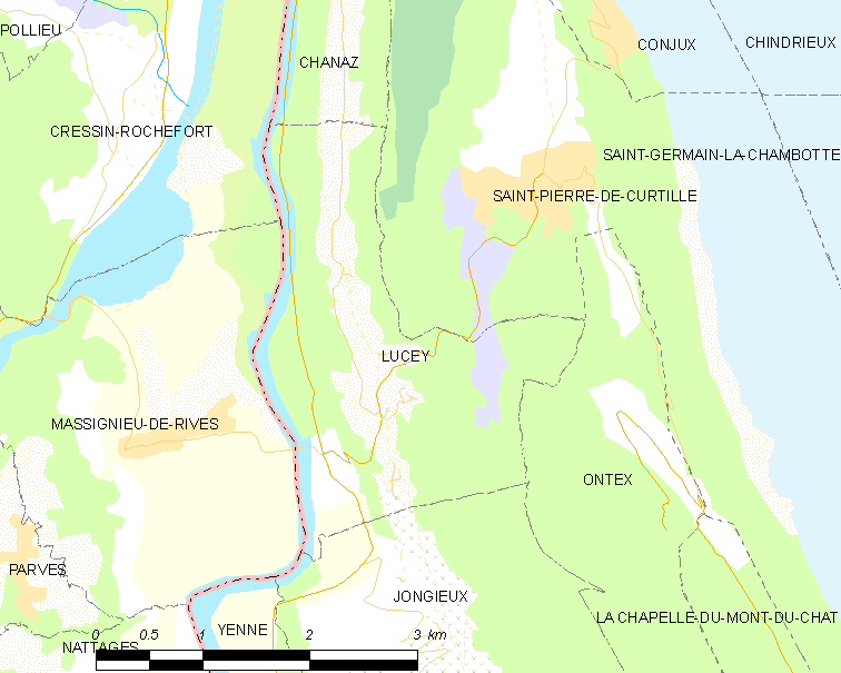 Map of French municipality